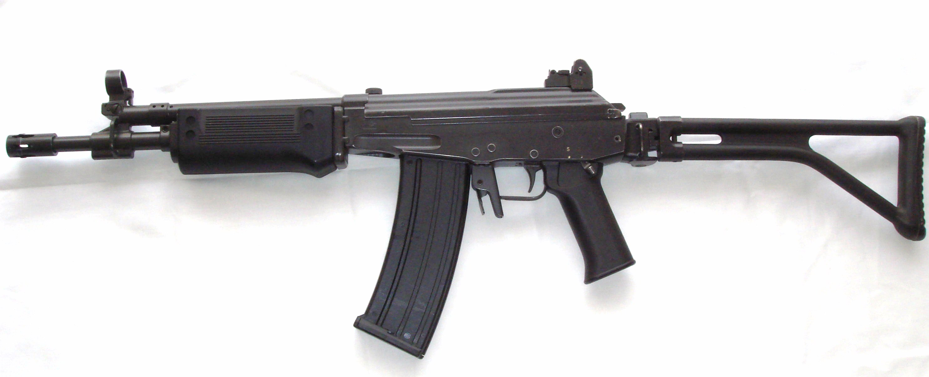 A Vektor LM5, the semi-automatic version of the South African manufactured R5 Assault Rifle